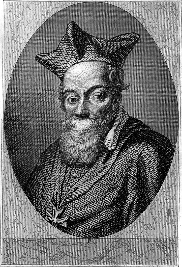 Jacques Du Perron (1556-1618), French cardinal and writer.